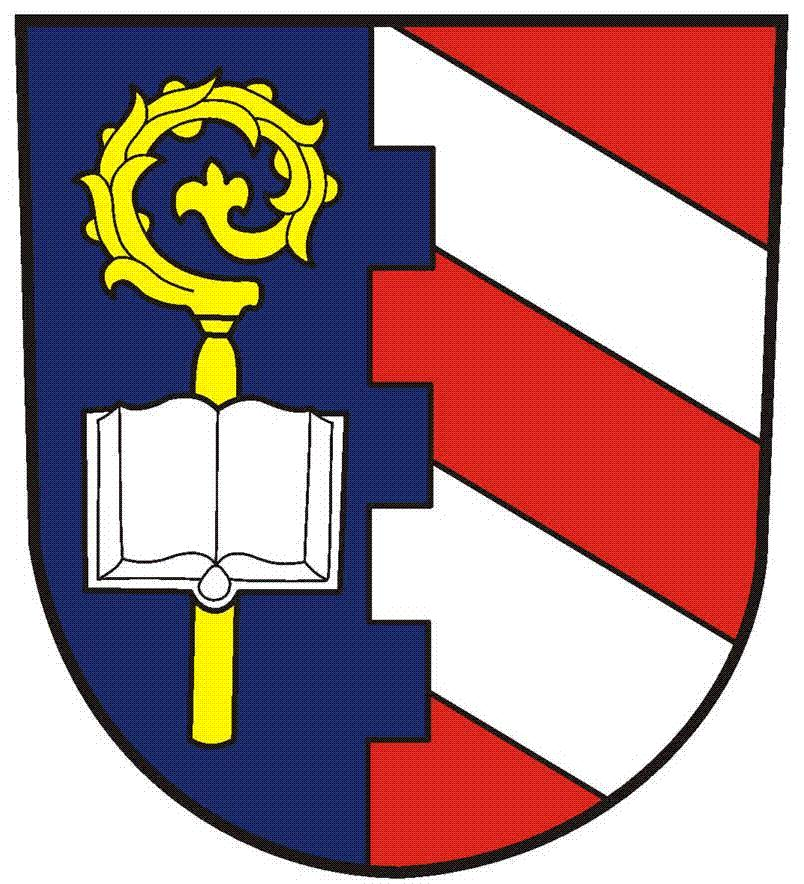 coat of arms of the Czech municipality Dobřany v Orlických horách